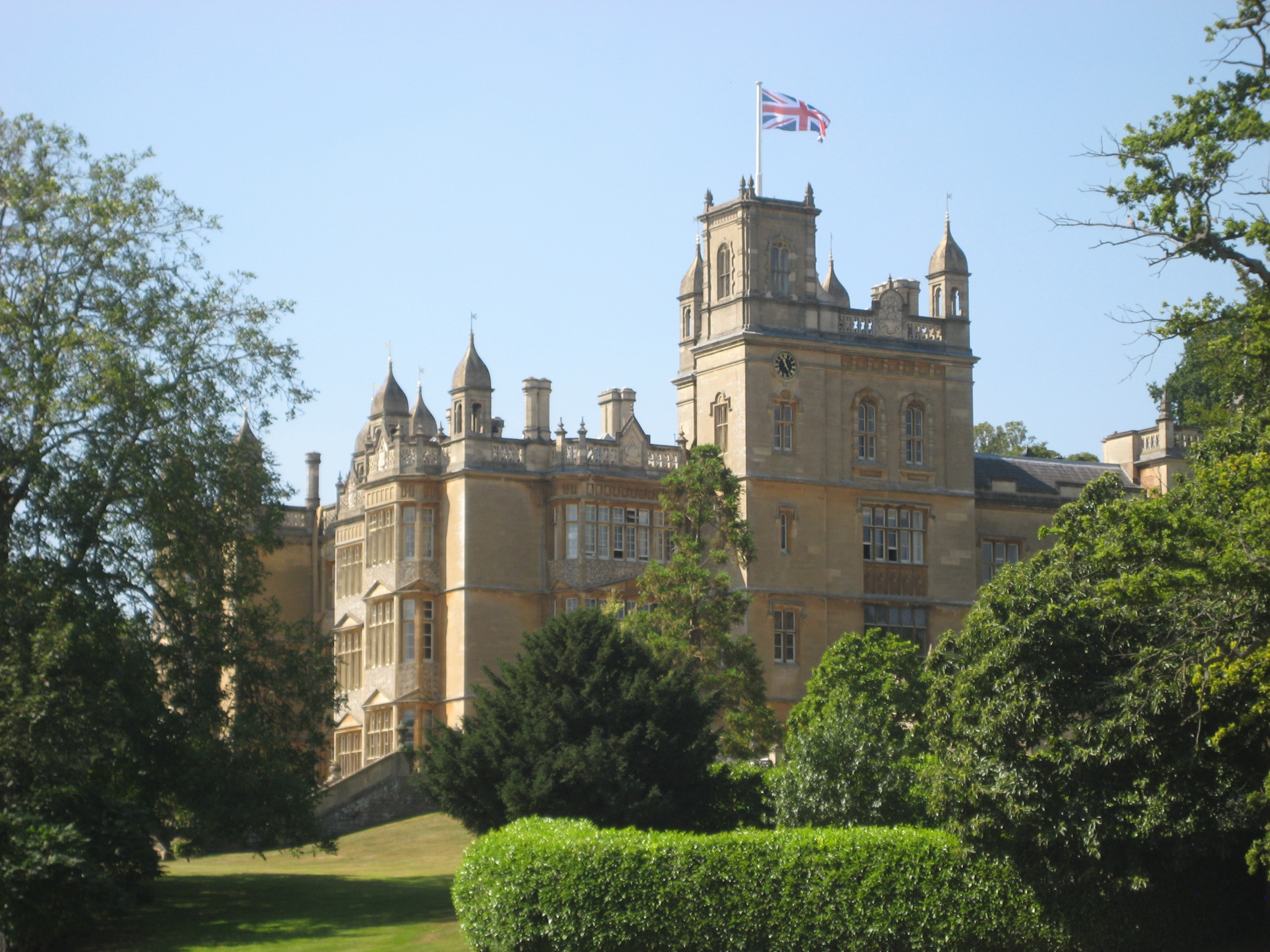 Englefield House, Englefield, Berkshire. View from the churchyard of St Mark's Church.